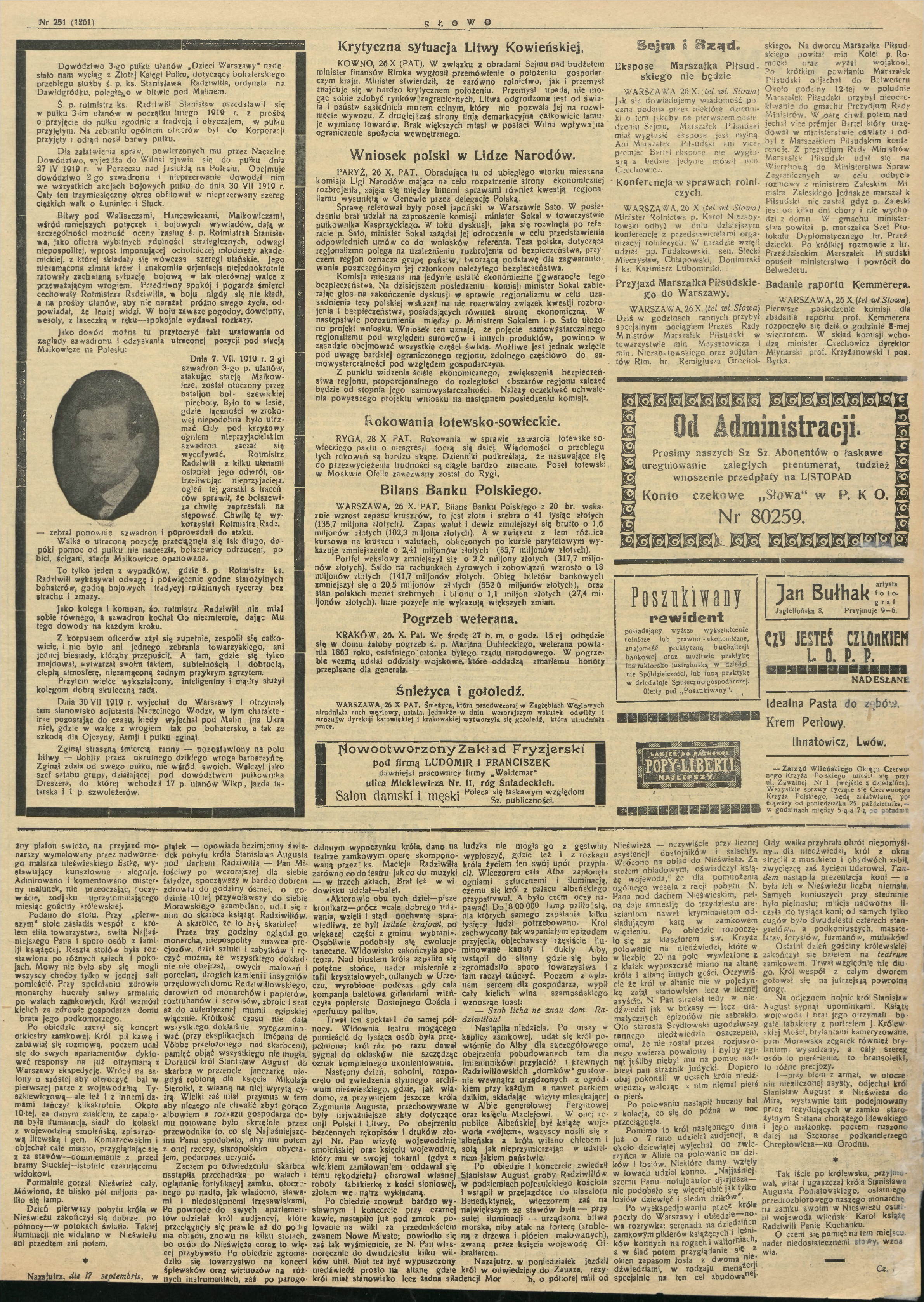 third page of a newspaper "Słowo" (#251, 1926 AD), Poland.